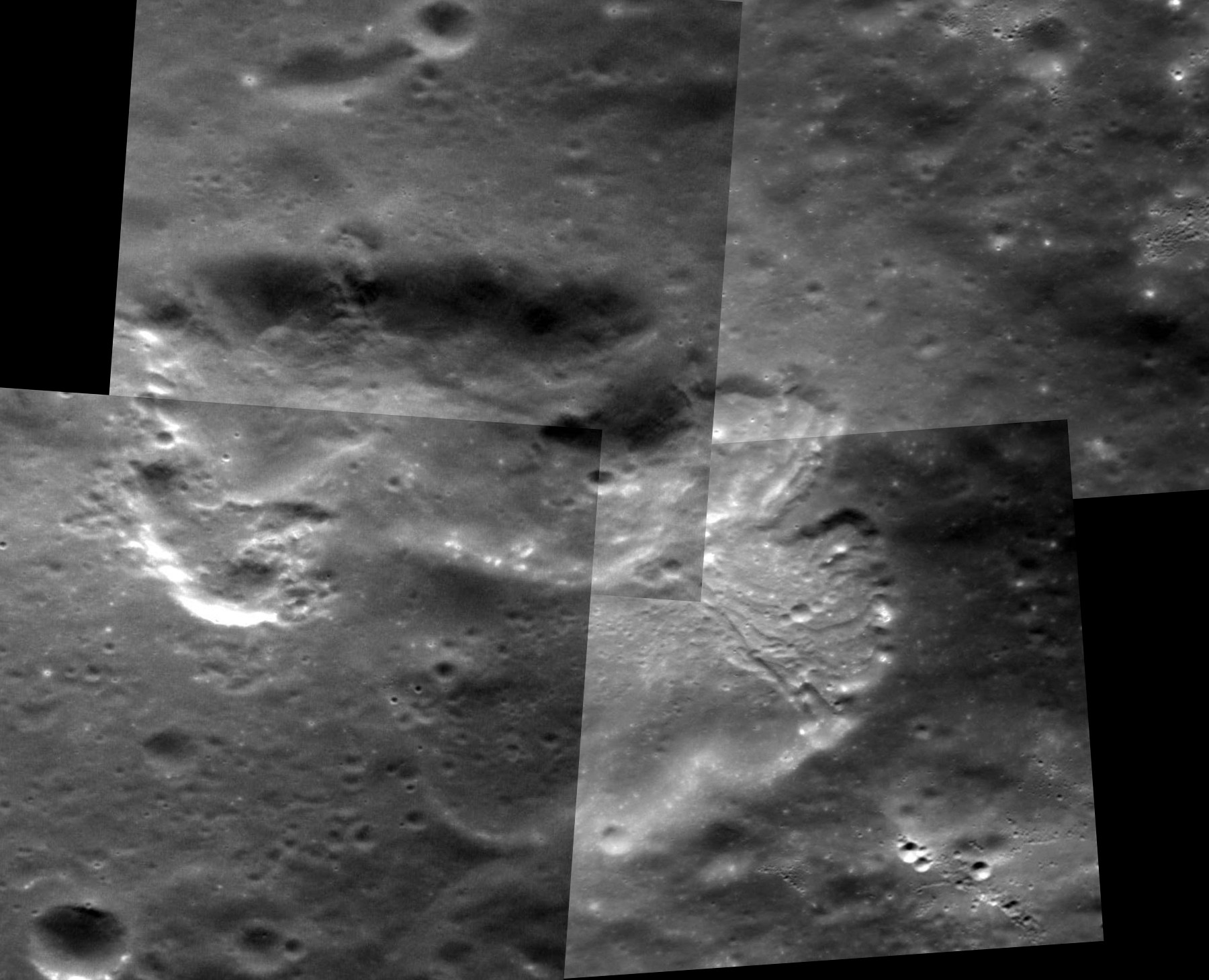 Oblique view of the depression in Enheduanna crater on Mercury. Mosaic of four MESSENGER Narrow Angle Camera images. The two left images (EN0226033340M, EN0226033346M) were acquired on 2011-10-02. The two right images (EN0241085005M, EN0241085014M) were acquired on 2012-03-24, and were scaled to match the left images. The depression is probably the result of volcanic activity. The depression is about 34 km across in this south-facing view.